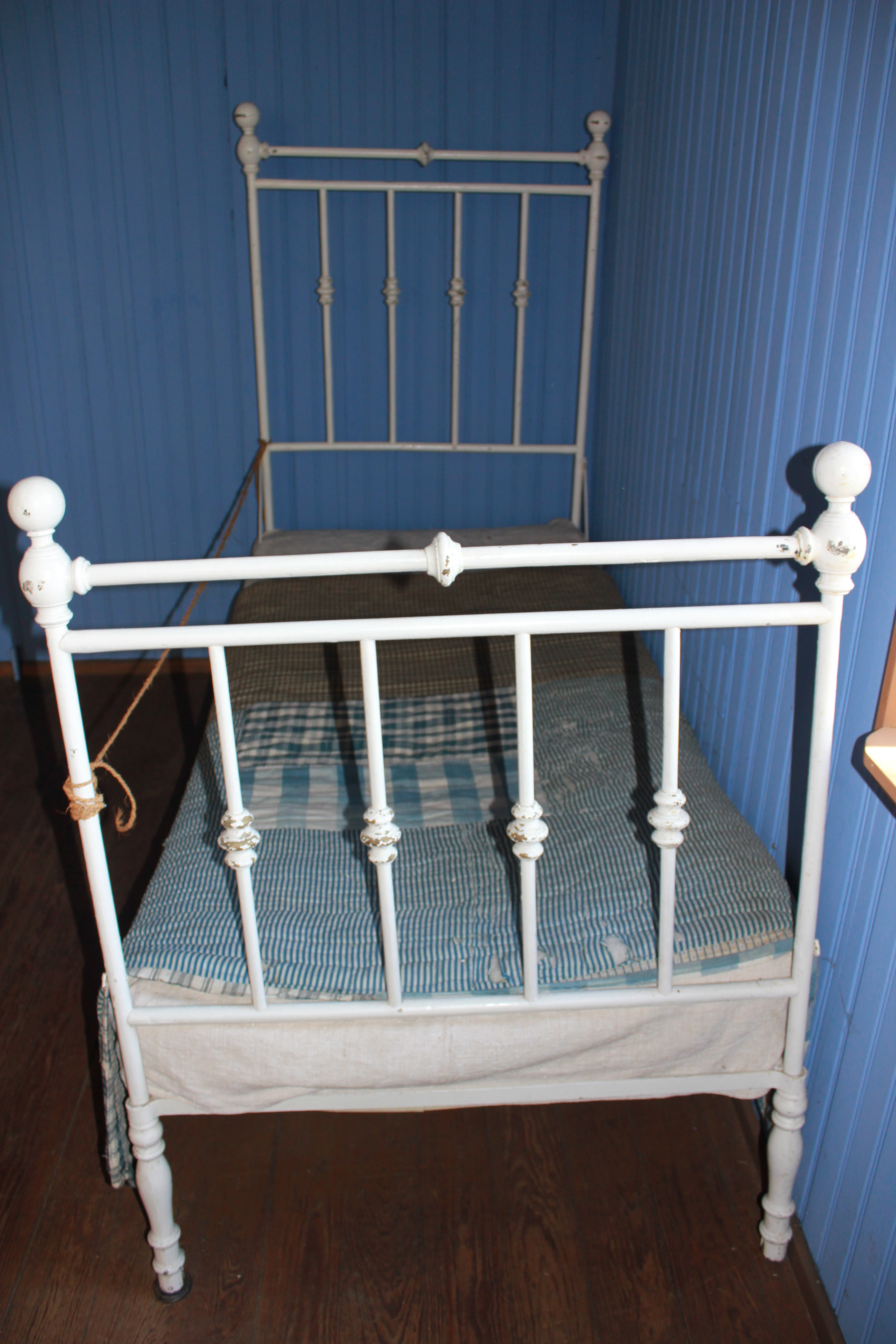 The bed inside Casa Selma, a "light-air cabin" on Monte Verità.